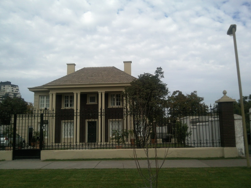 Picture of el golf suburb in Chile.